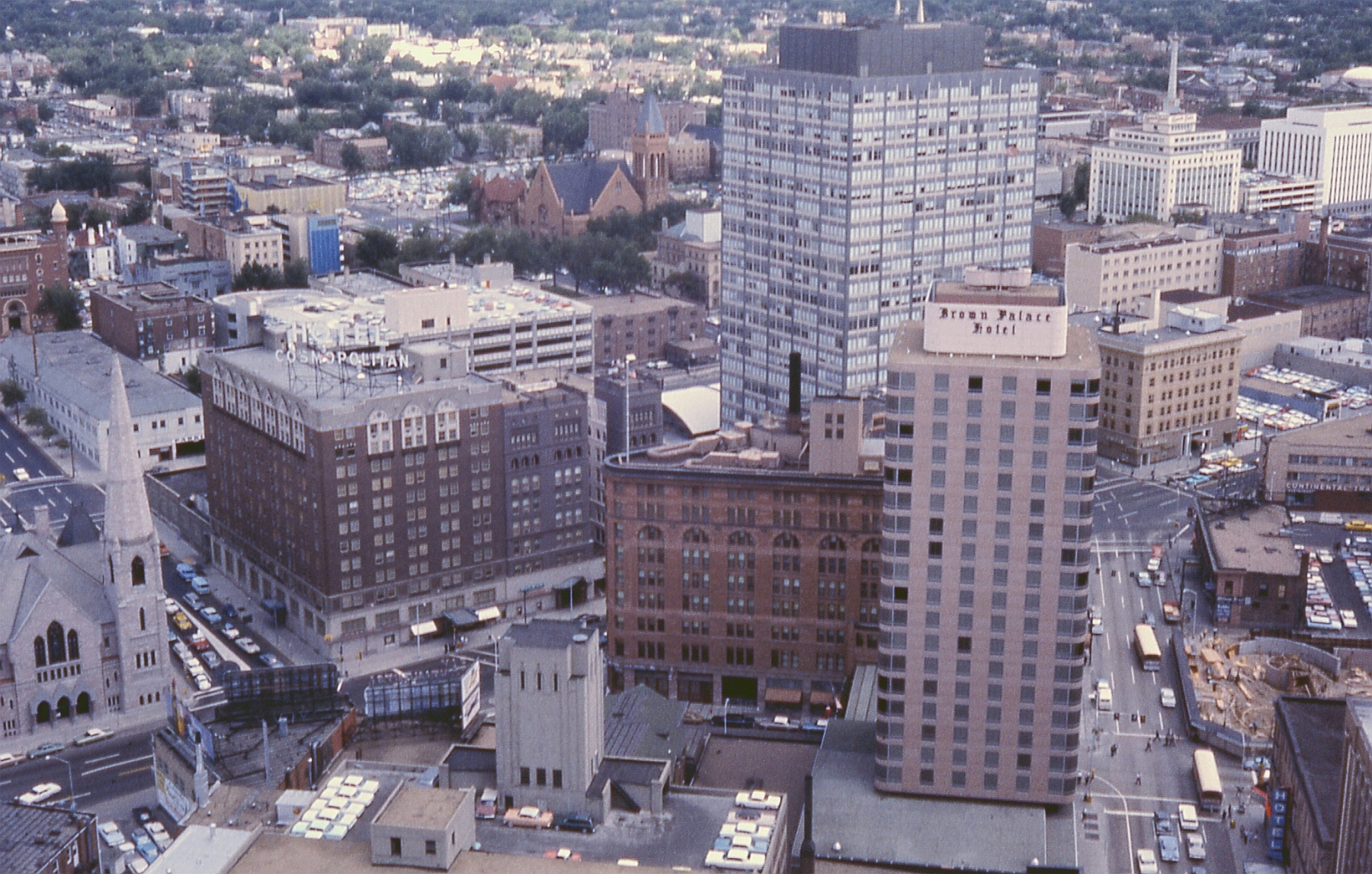 Downtown Denver skyline looking southeast, 1964. Includes Denver's oldest church (Trinity United Methodist - 1820 Broadway), the first building of the Mile High Center complex, the Lincoln Center, the old brownstone part of the Brown Palace Hotel, and the Cosmopolitan Hotel, since demolished. Taken with a 35mm Exakta VX SLR camera and Ektachrome color slide film.